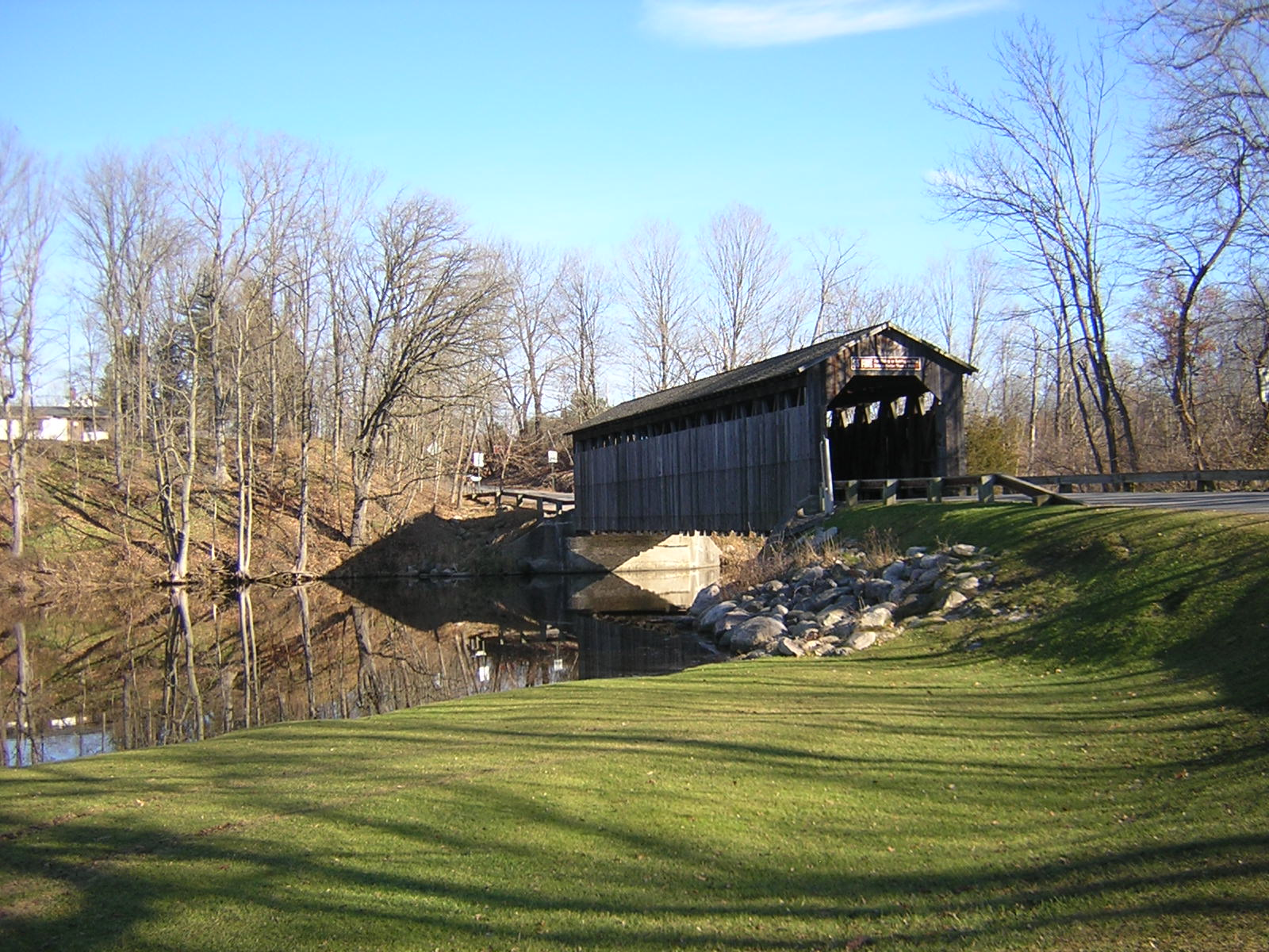 view from upstream (North side) looking downstream (to the southeast) of Fallasburg Bridge near Fallasburg, Michigan (just north of Lowell), on the Flat River on a clear fall day.